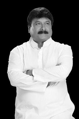 Social Worker, Politician, Actor Mr. Jagadish Bhuyan's Photo.